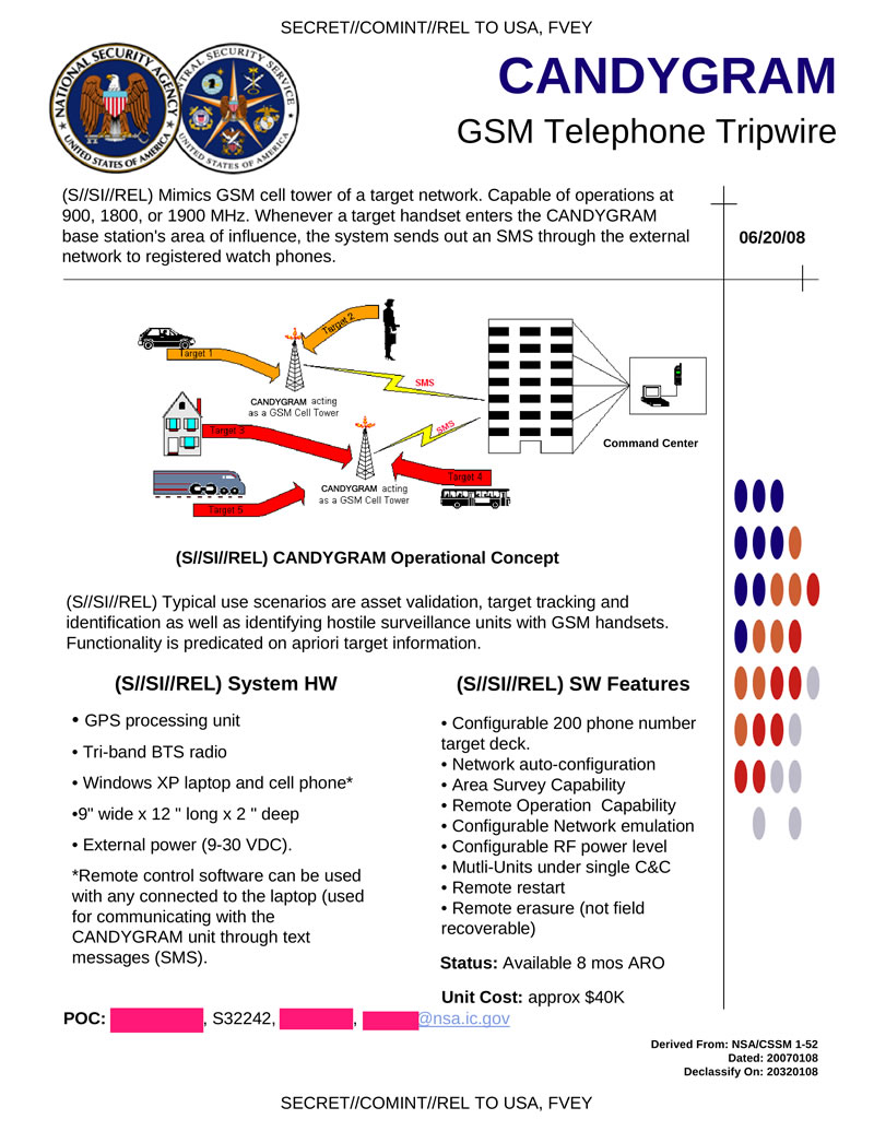 CANDYGRAM - Mimics the GSM cell tower of targeted networks